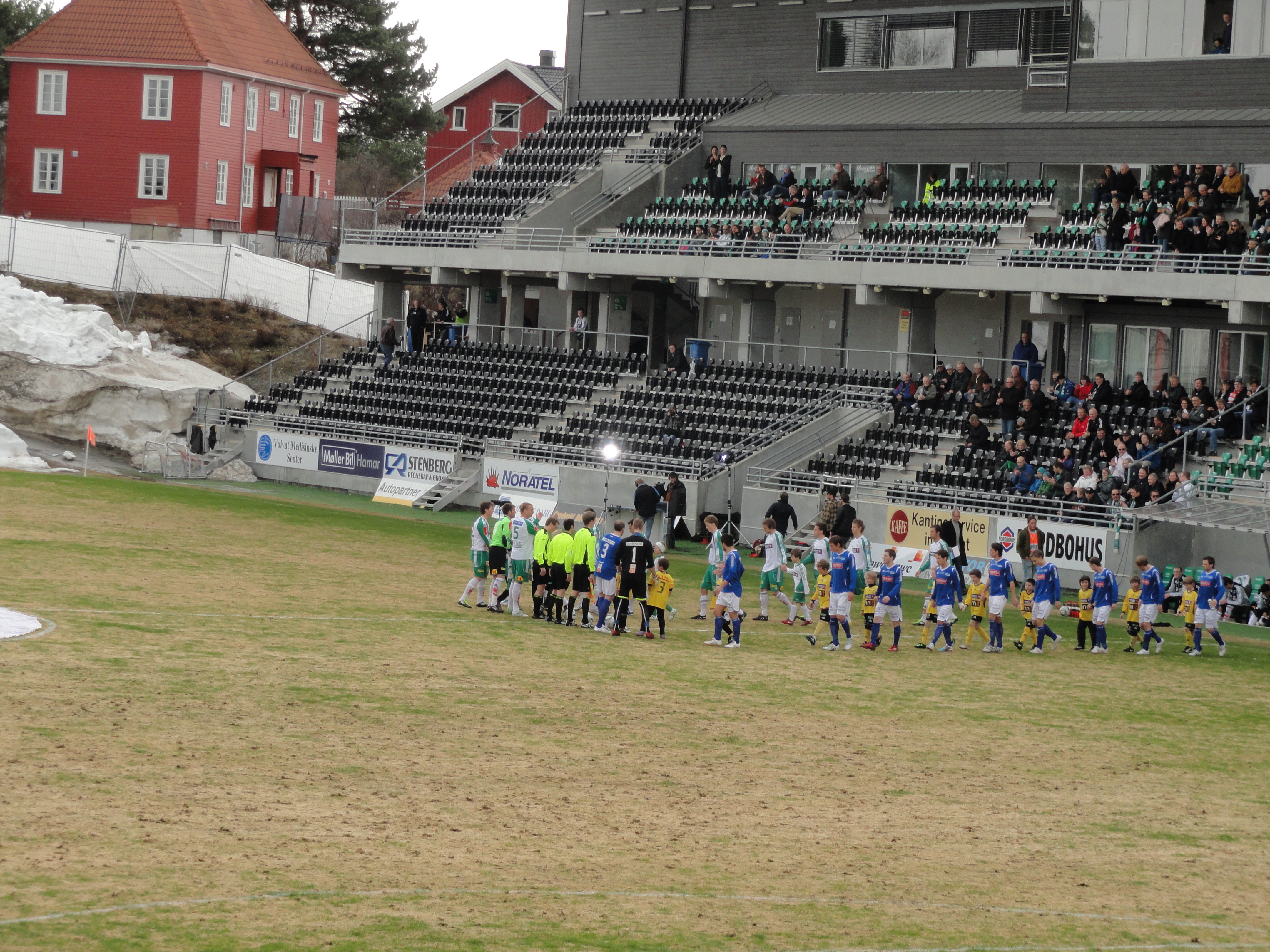 Before match HamKam-Ranheim